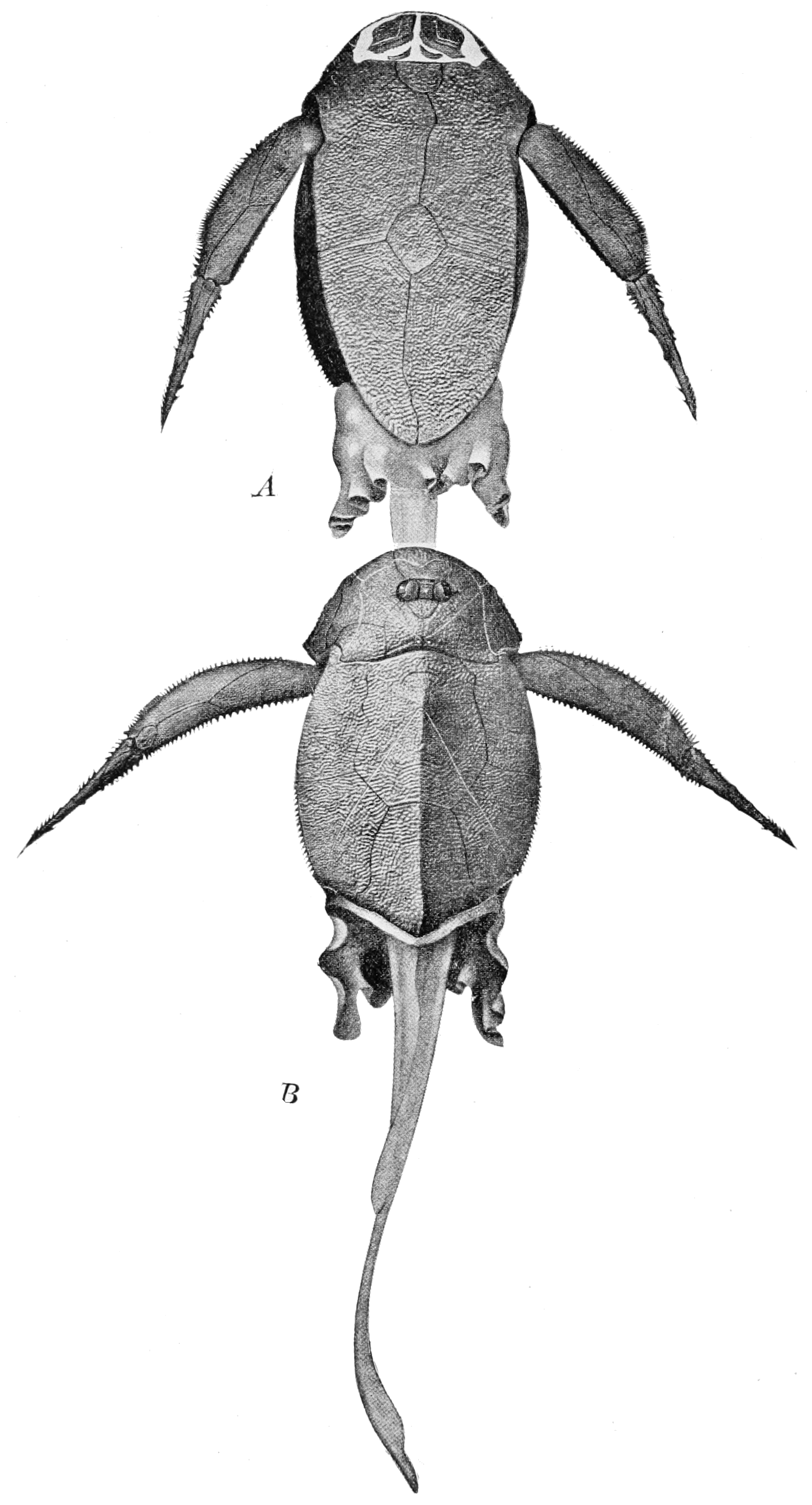 Restoration of a bothriolepsis canadensis